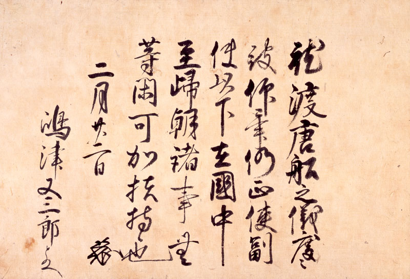 Letter from Ashikaga Yoshimasa to Shimazu Tadamasa. Part of the Shimazu-ke Monjo (島津家文書), a large scale collection of documents of the Shimazu clan covering among others politics, diplomacy, social economy and inheritance. The total number of documents is 15,133. The collected items have been nominated as National Treasure of Japan in the category ancient documents.